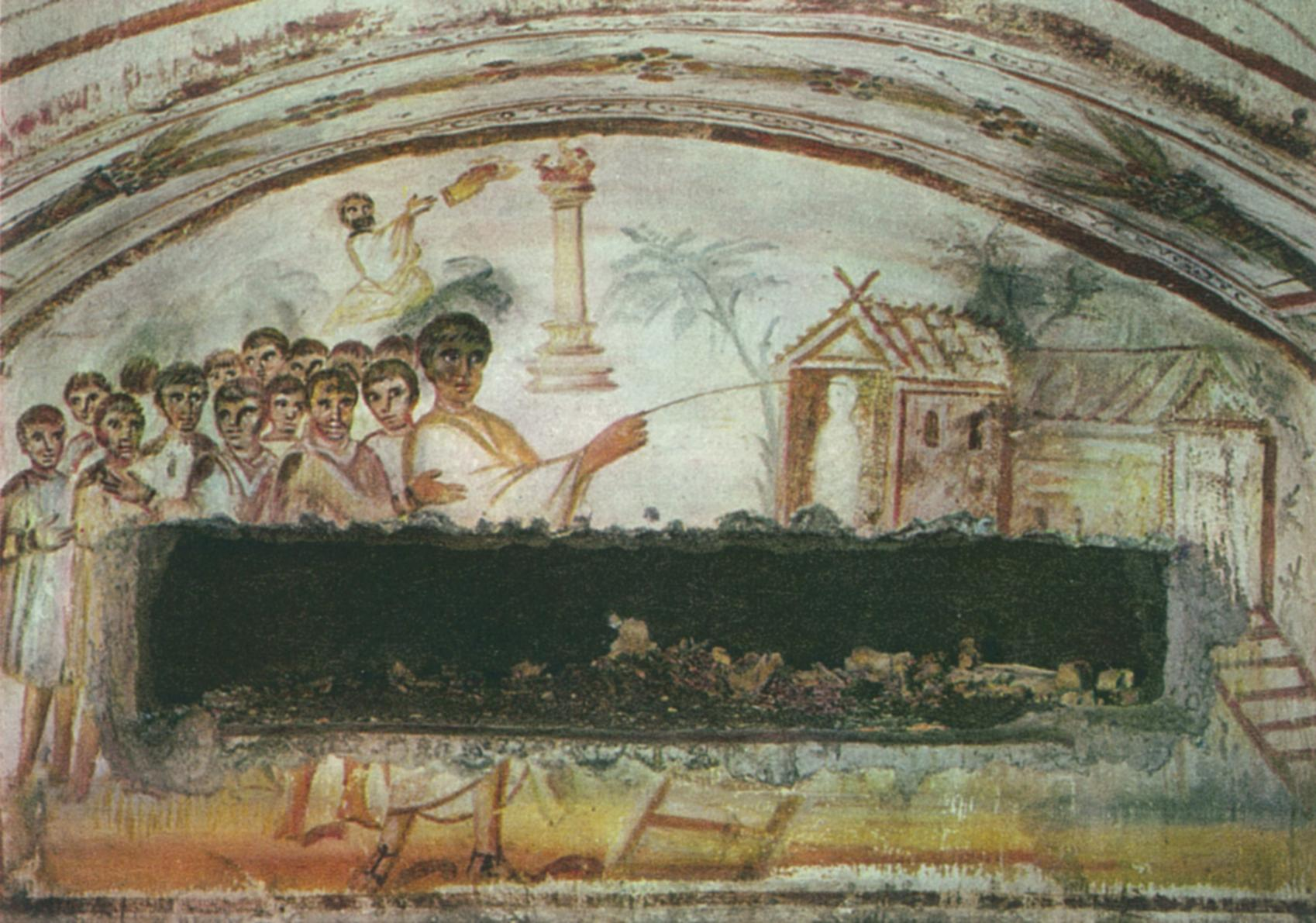 Resurrection of Lazarus, Rom, Catacombe di via Latina, 4th century.